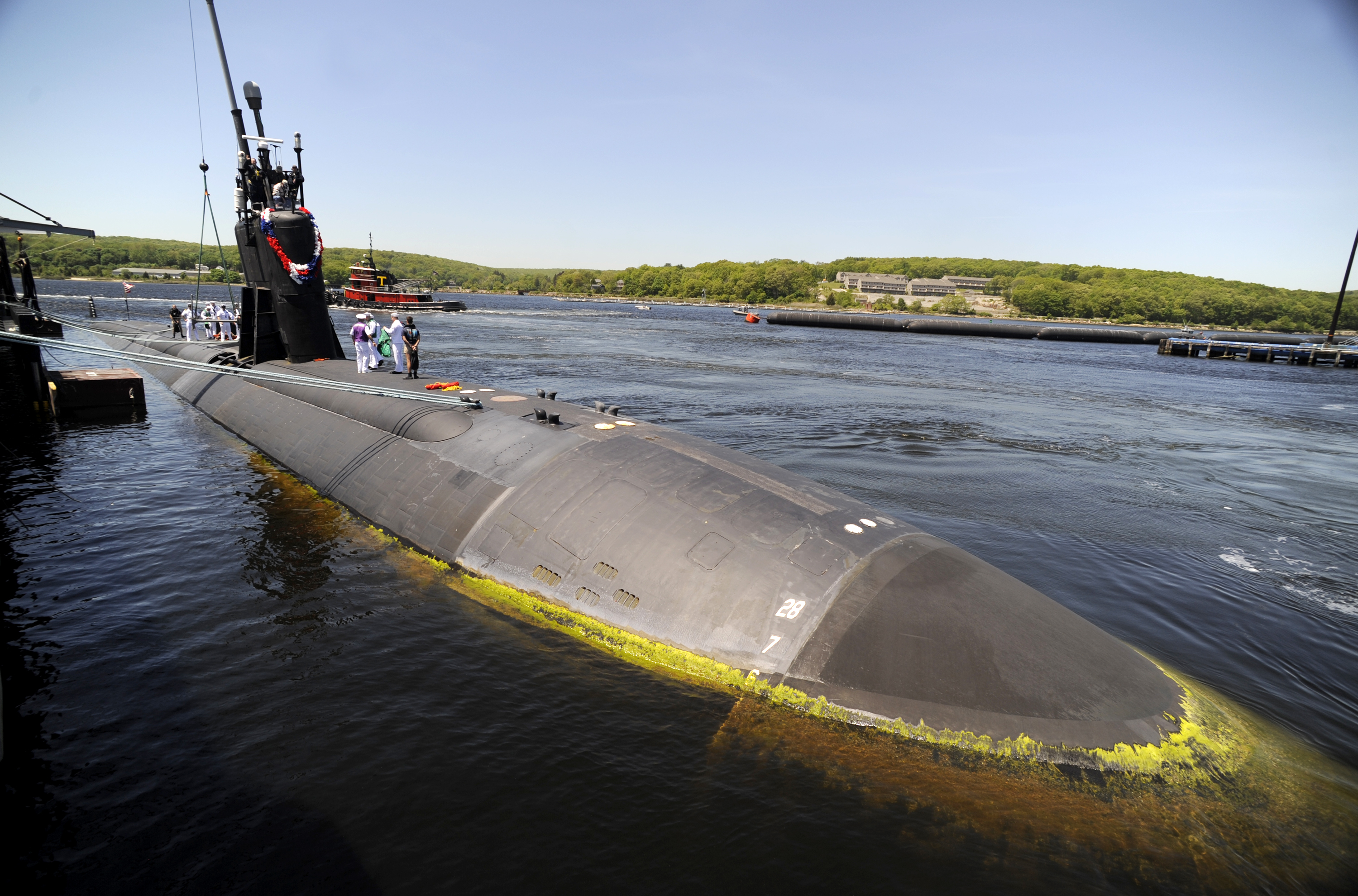 Sailors aboard the Los Angeles-class fast-attack submarine USS Hartford (SSN 768) wait for the brow to be lowered during the ships return home to Submarine Base New London after a month-long surface transit from Bahrain.